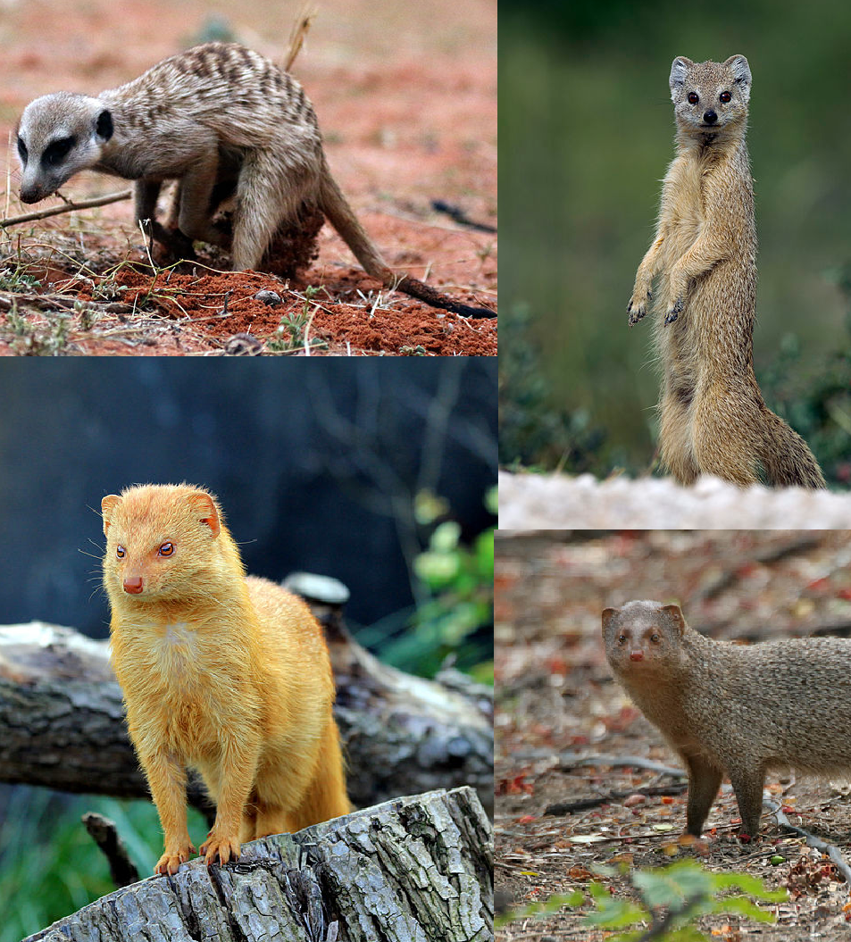 Mongoose collection - Top left: Suricata suricatta Top right: Cynictis penicillata Below left: Galerella sanguinea Below right: Herpestes edwardsii